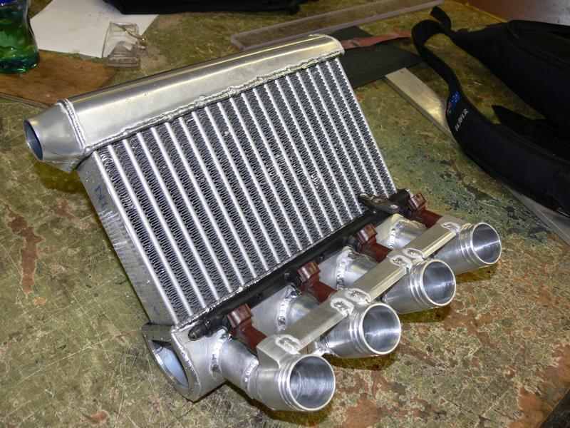 Intercooler - 2 Stage system